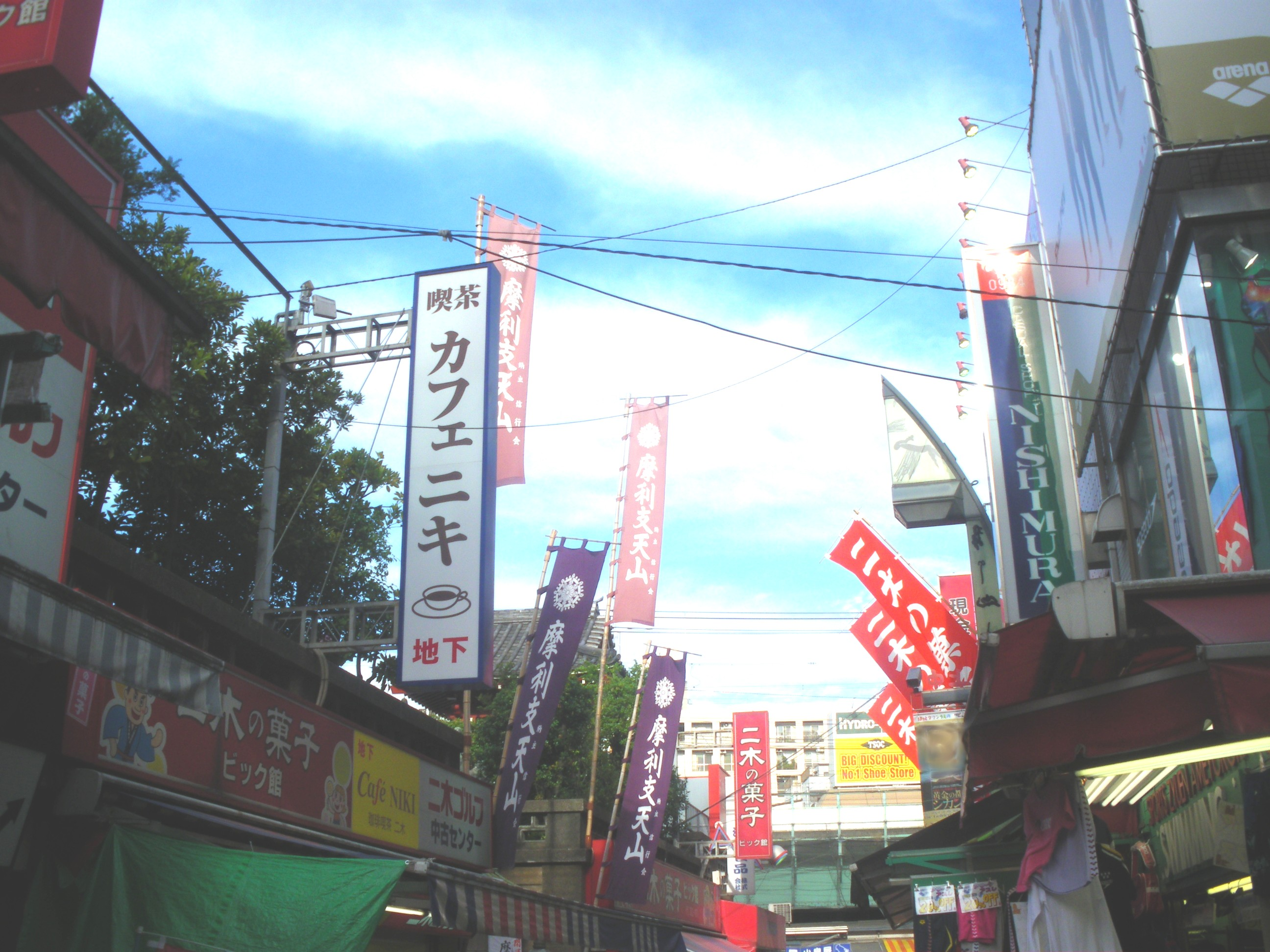 Niki no Kashi head store(Ueno,Taito,Tokyo)